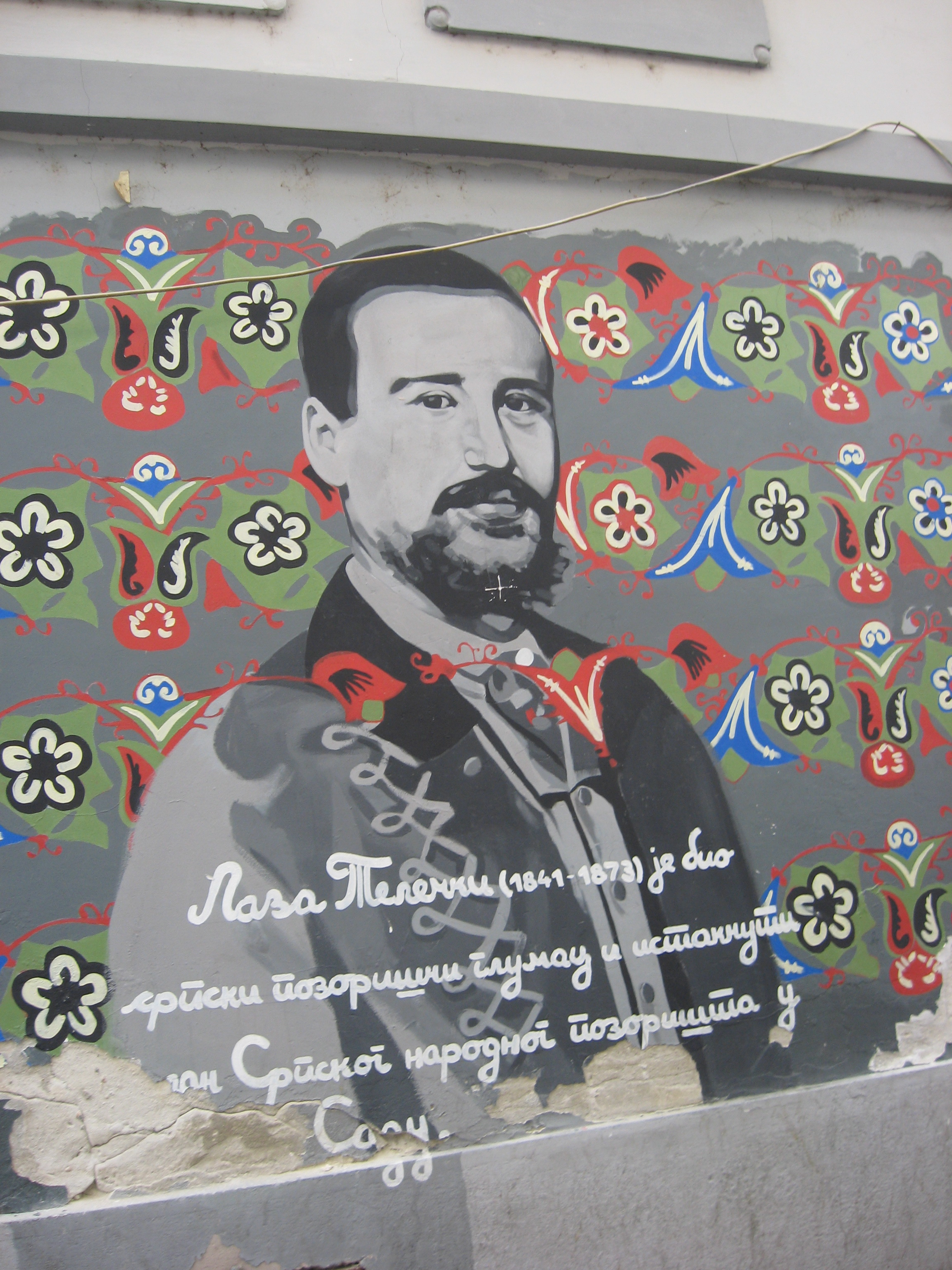 Famous actor